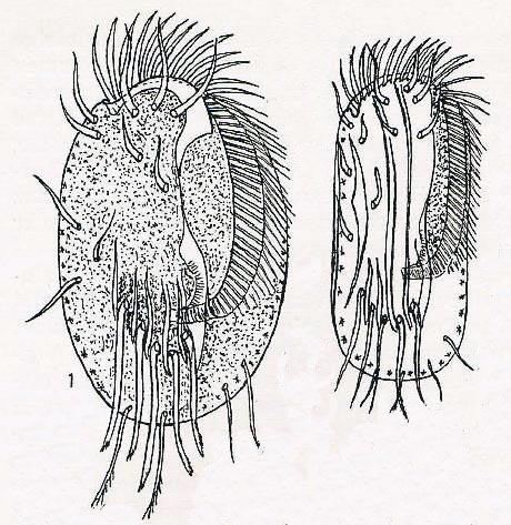 Alfred Kahl's drawings of the ciliates Euplotes harpa and Euplotes extensum, from vol. III of Wimpertiere oder Ciliata.